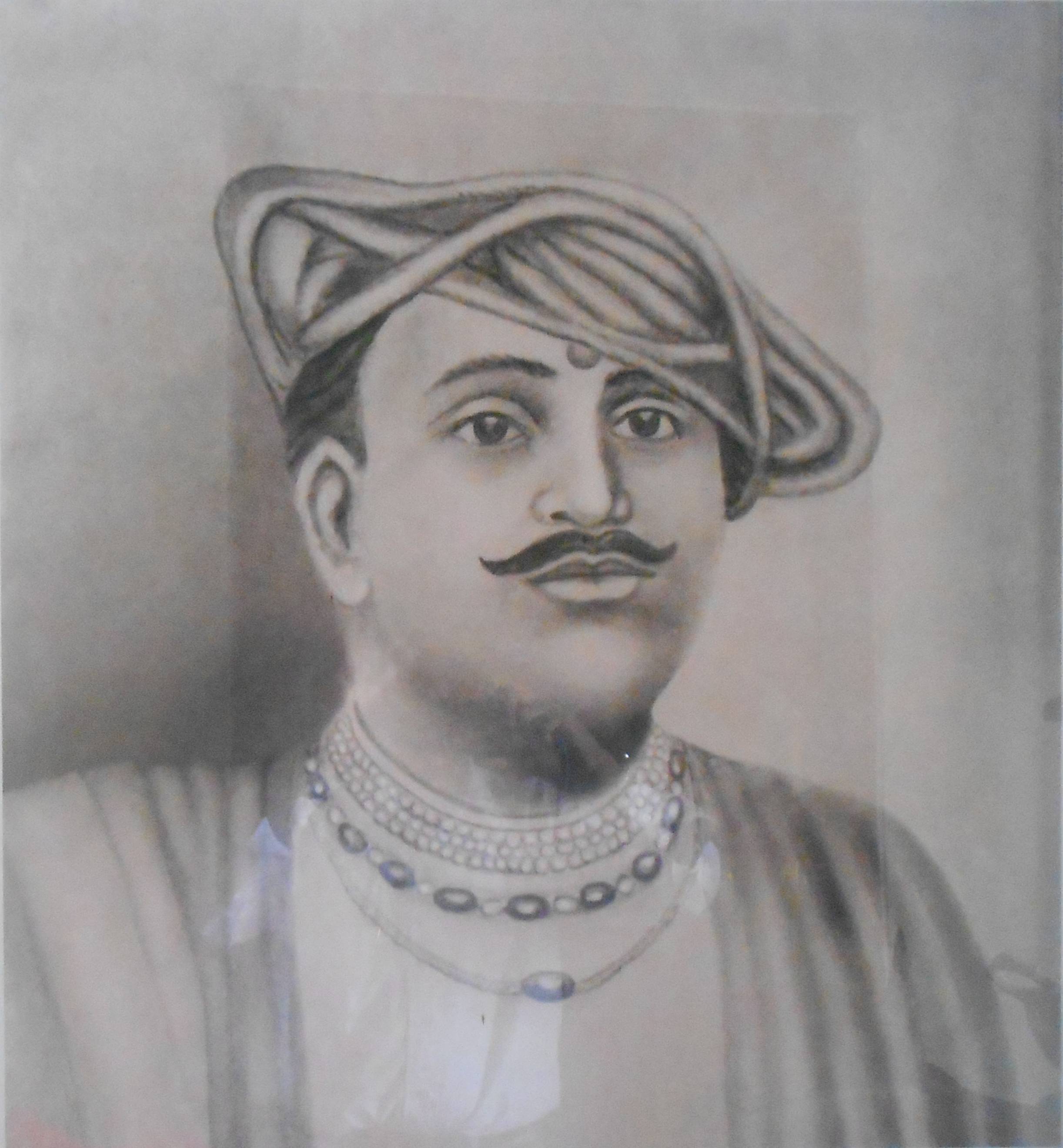 Sarkhel Kanhoji Angre. Admiral of Maratha Navy 1698 - 1729. This image has been uploaded here with the kind permission of Raghuji Raje Angre, the present descendent of Kanhoji Angre.